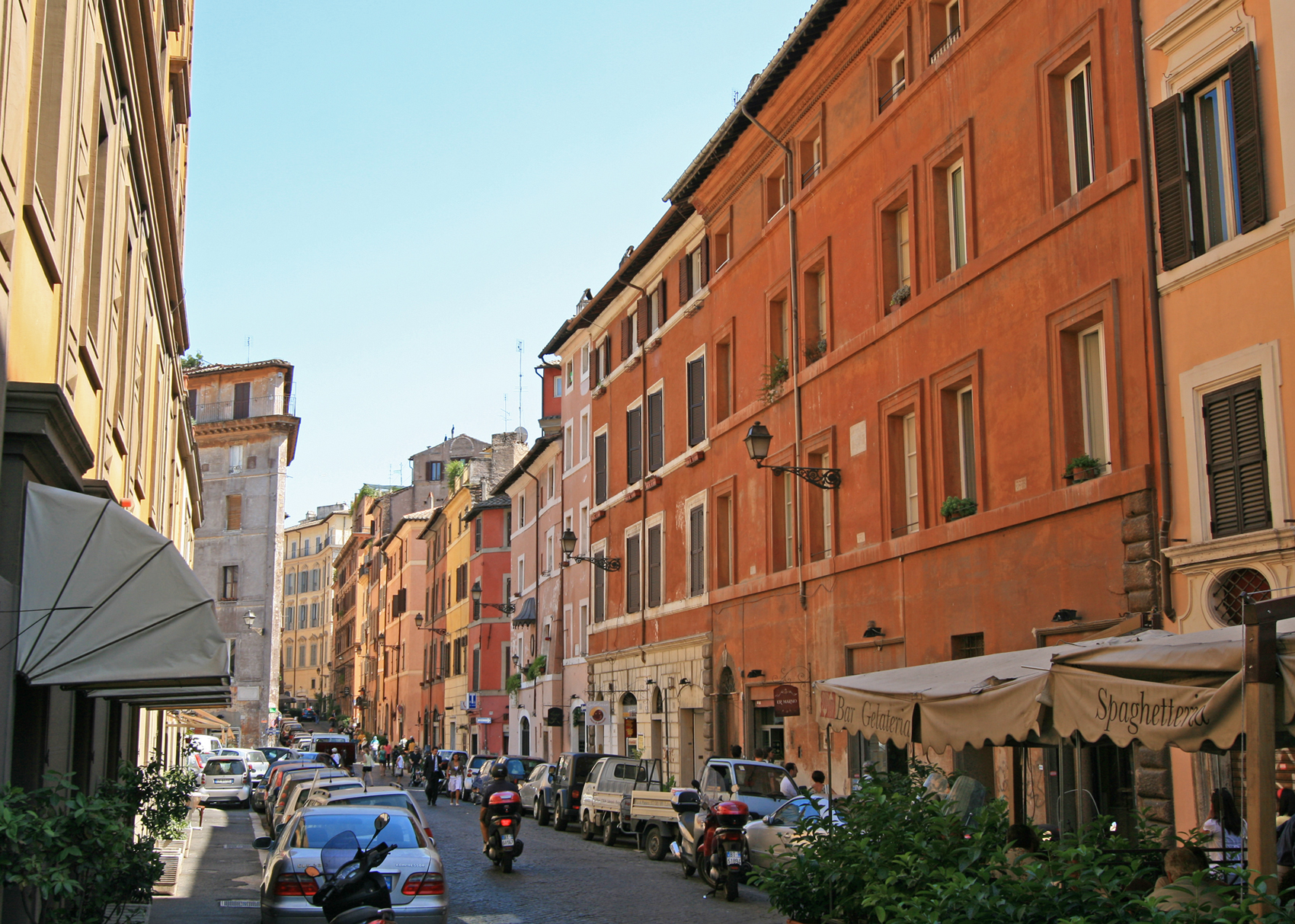 Via di Panico, Rome.